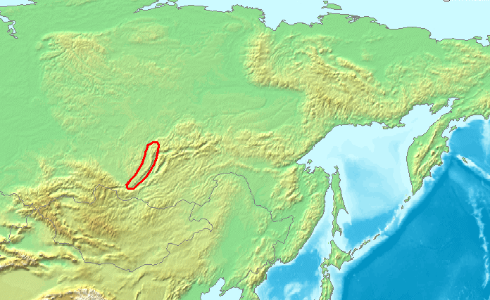 Location Baikal Mountains.PNG